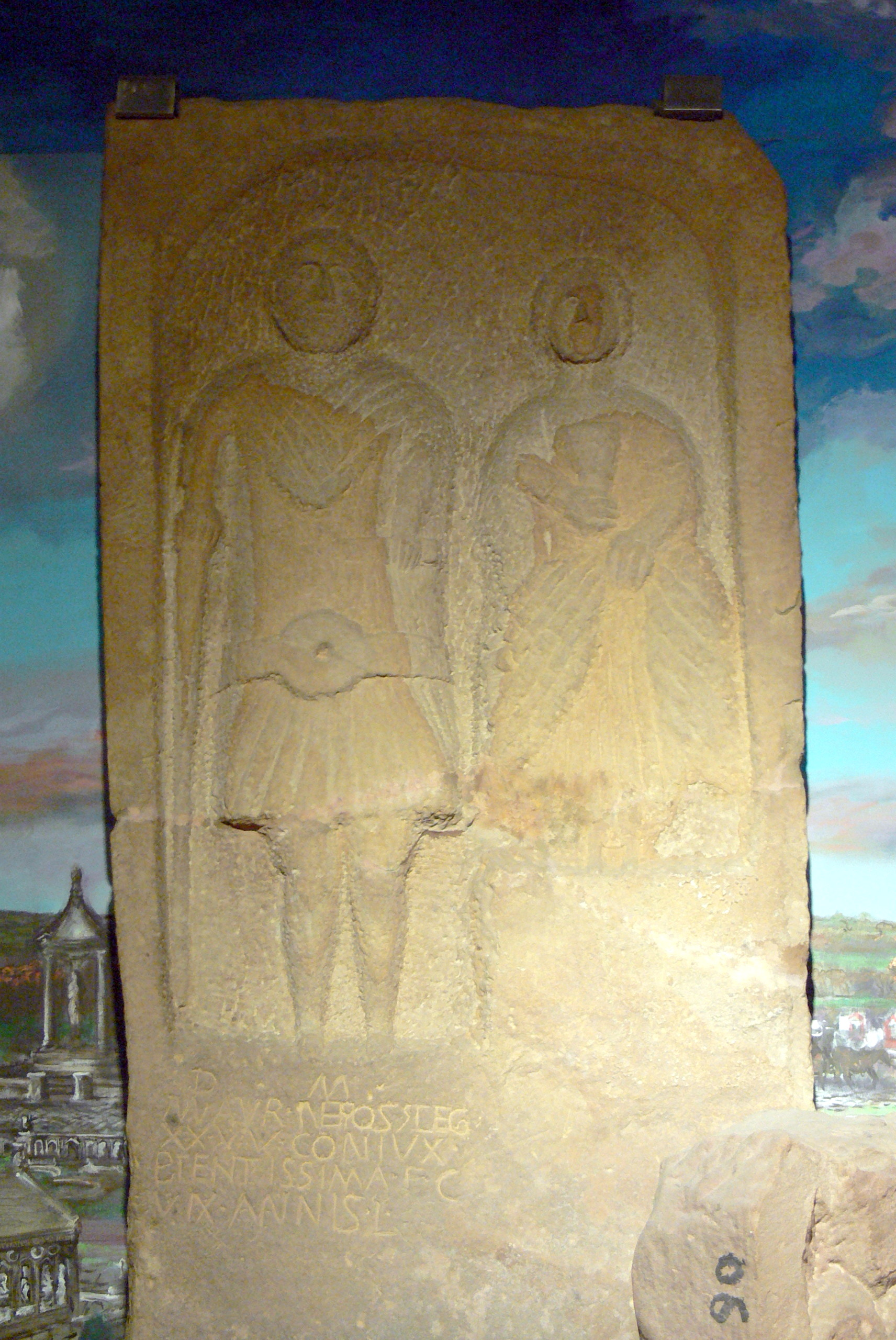 Chester ( England ). Grosvenor Museums: Tombstone of Marcus Aurelius Nepos, centurion of Legio XX, and his wife, with inscription D:M:M:AVR:NEPOS:LEG:XX:V:V:CONIUX:PIENTISSIMA:F:C:VIX:ANNIS:L ( To the spirits of the departed, Marcus Aurelius Nepos, centurion of the twentieth legion Valeria Victrix. His most dutiful wife made this. He lived 50 years ).